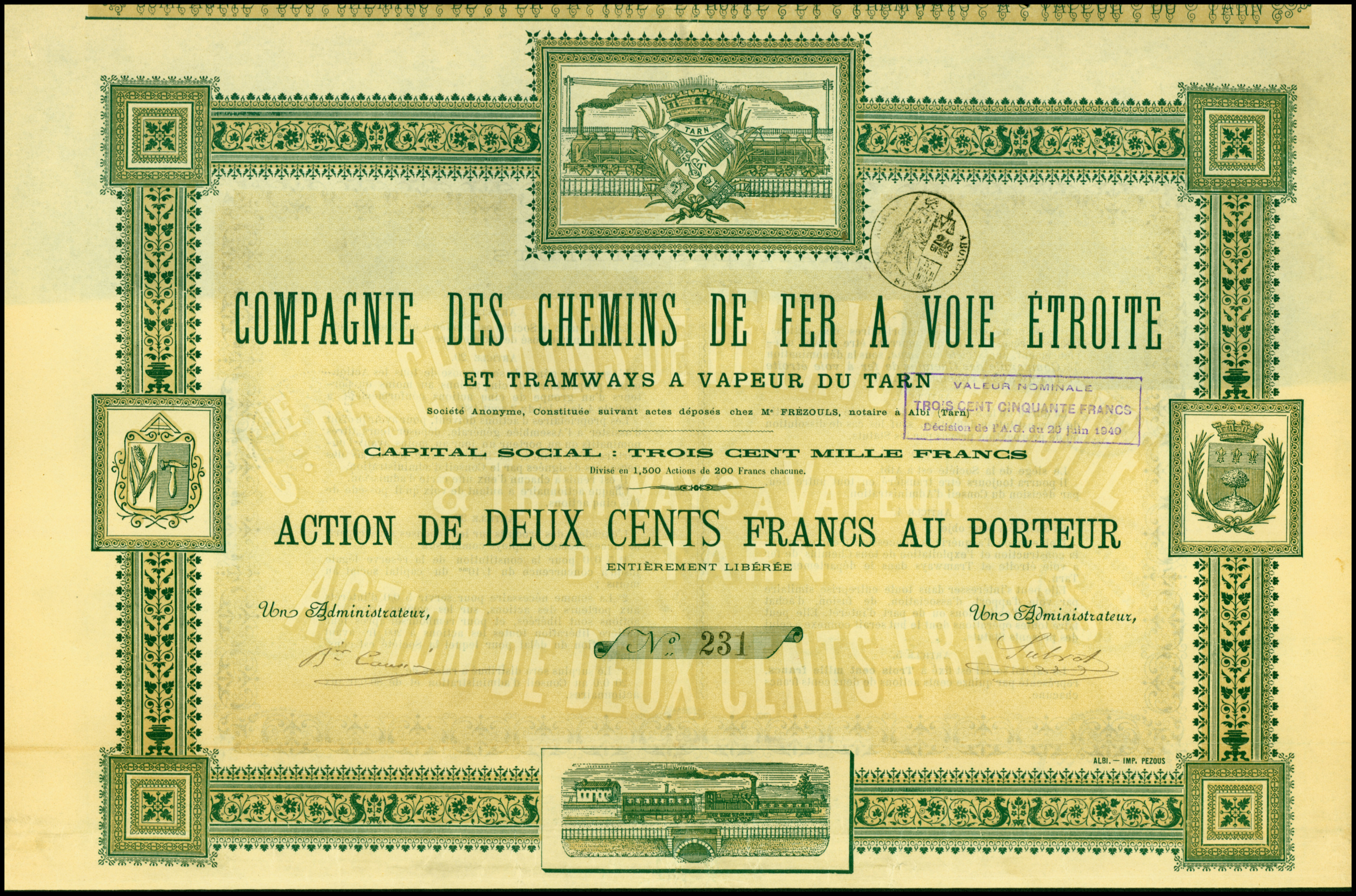 Share of the Comp. des Chemins de Fer a Voie Étroite et Tramways a Vapeur du Tarn, issued 1894